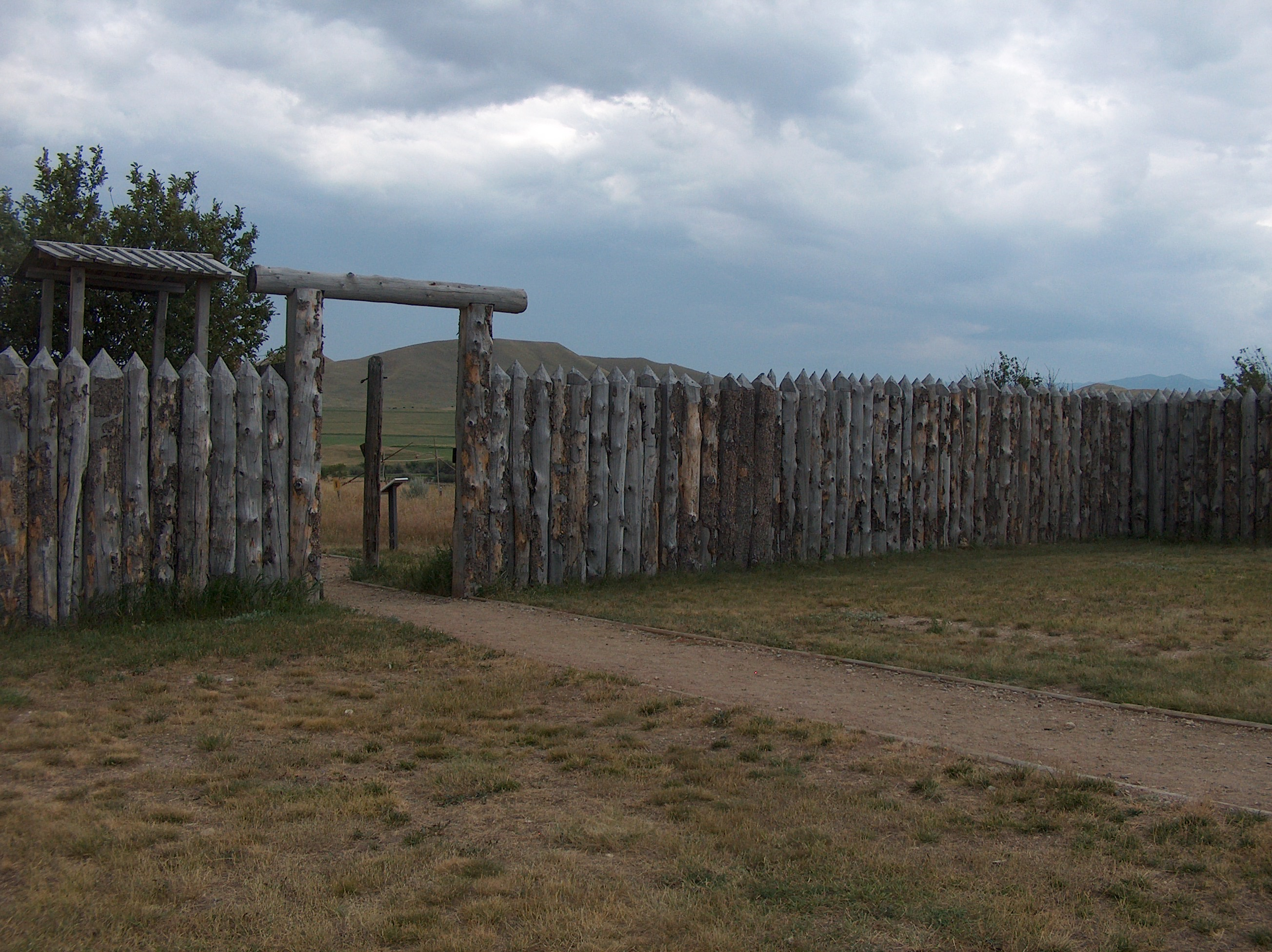 Fort Phil Kearney, between Buffalo and Sheridan, WY (photo: Gilles Coudert, 25 July 2007)